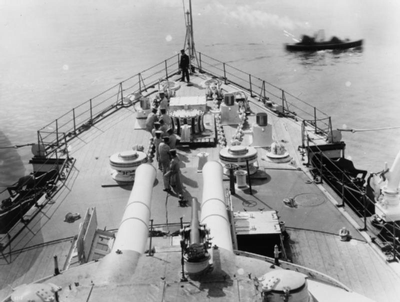 Photograph of A turret 12-inch guns guns and forecastle of British battleship HMS Majestic, viewed from the bridge. A 12-pounder anti-torpedo boat gun is seen mounted on the roof of the turret.